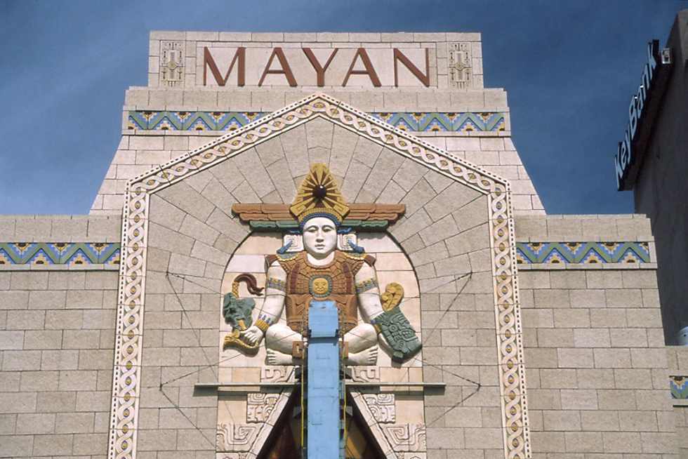 photo by Einar Einarsson Kvaran aka Carptrash 20:07, 20 November 2006 (UTC) . Mayan Theatre, Denver Colorado, 1930